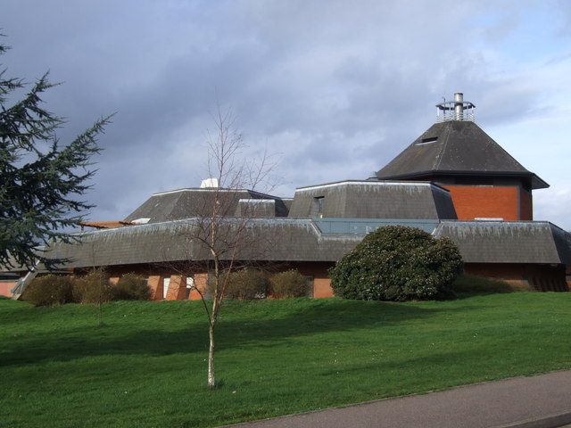 South Norfolk Council Offices, Long Stratton